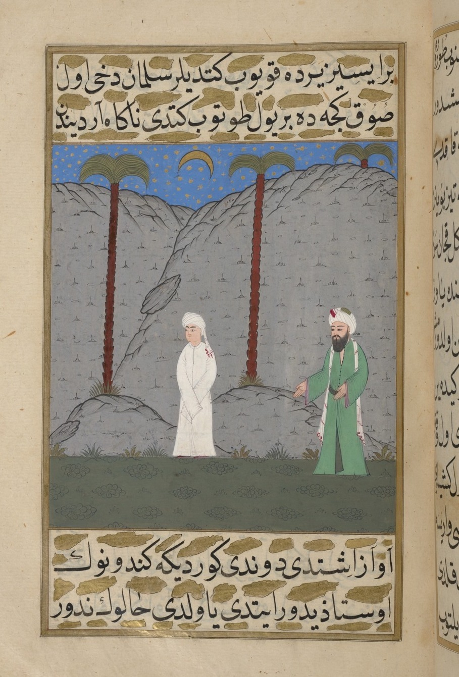 Salmân is expelled from the country by his father when he refuses to practice Zoroastrianism. (1594 - 1595)